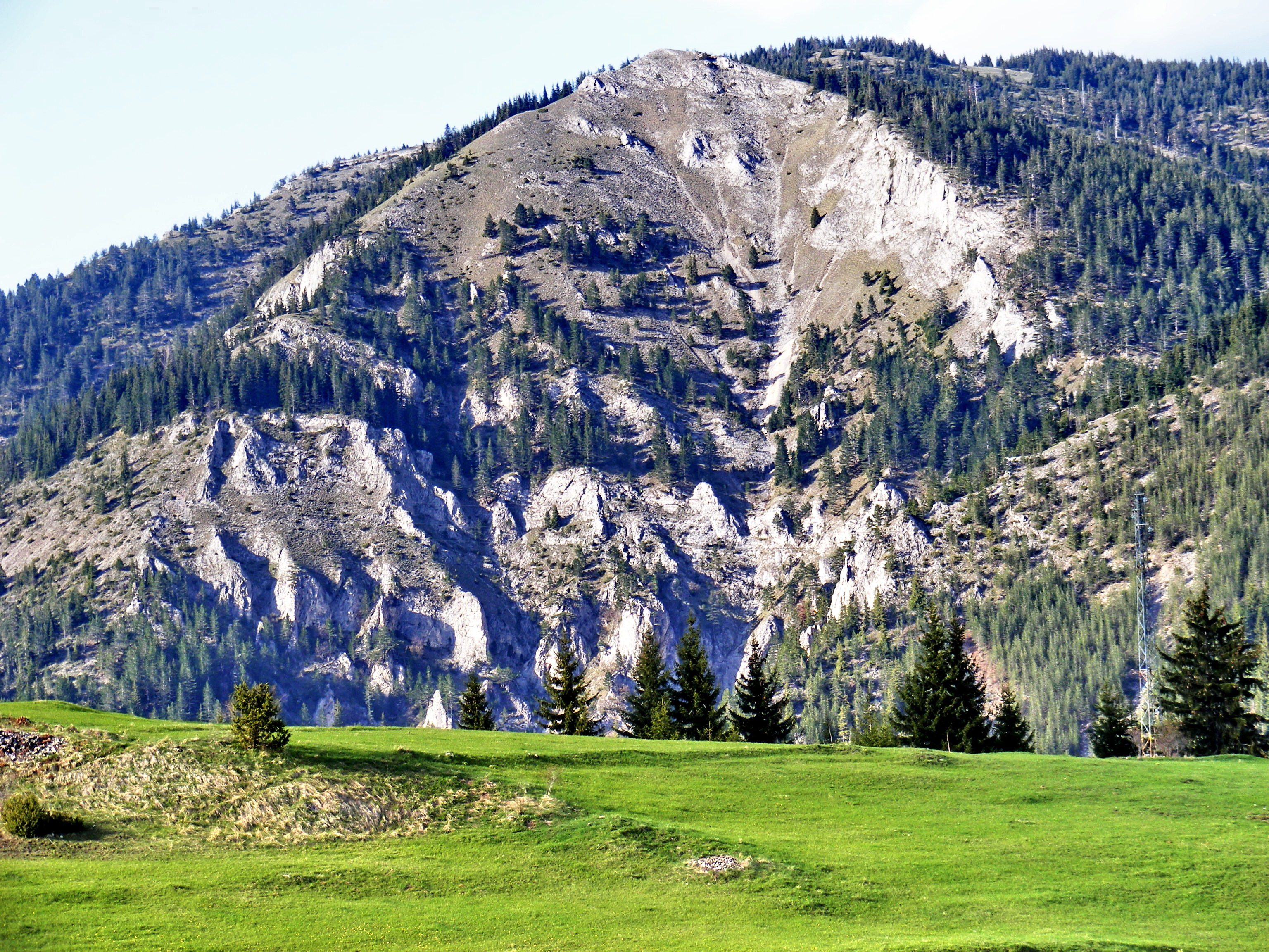 The Rock